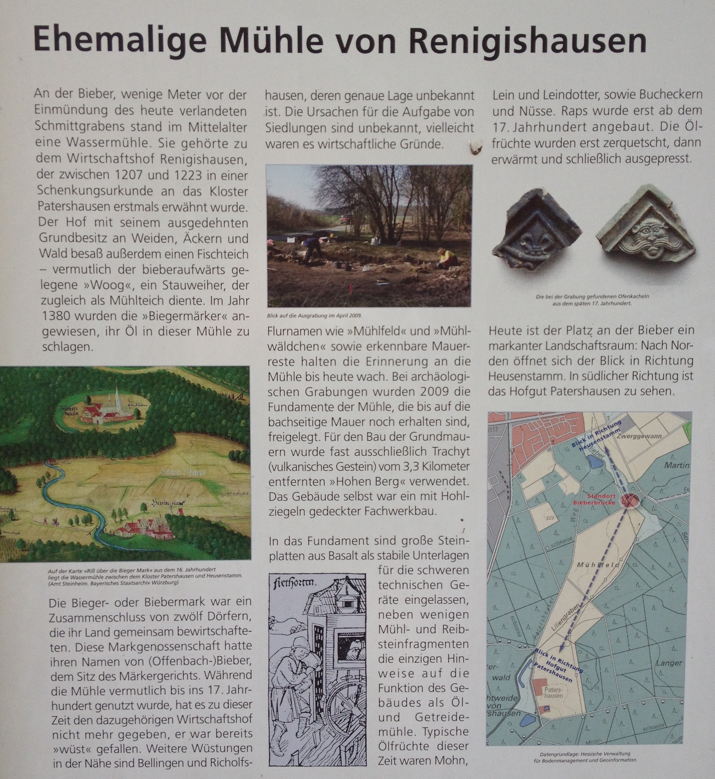 Infoboard about former village Rennigishausen, near Heusenstamm, County Offenbach, Hesse, Germany